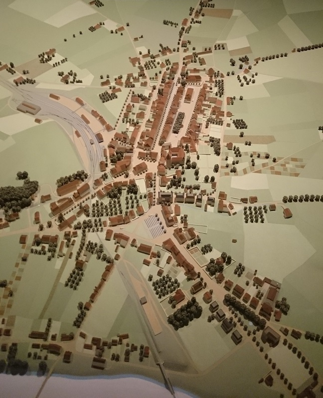 Bulle en 1914